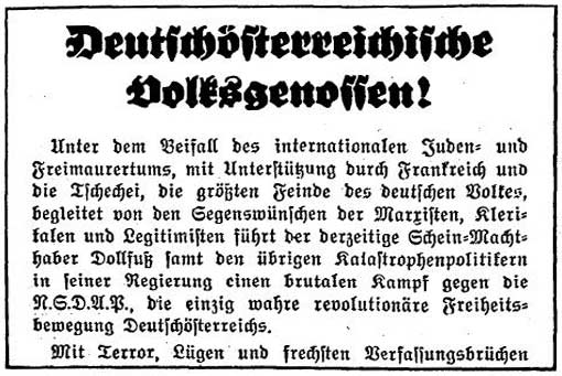 Nazi Propaganda ad against Engelbert Dollfuß (Austrian Chancellor), ca. July 1933. Dollfuß was assasinated later in July.